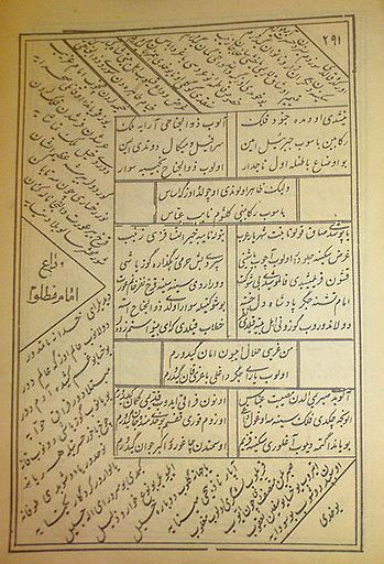 Mirzə Məhəmməd Tağı Qumri